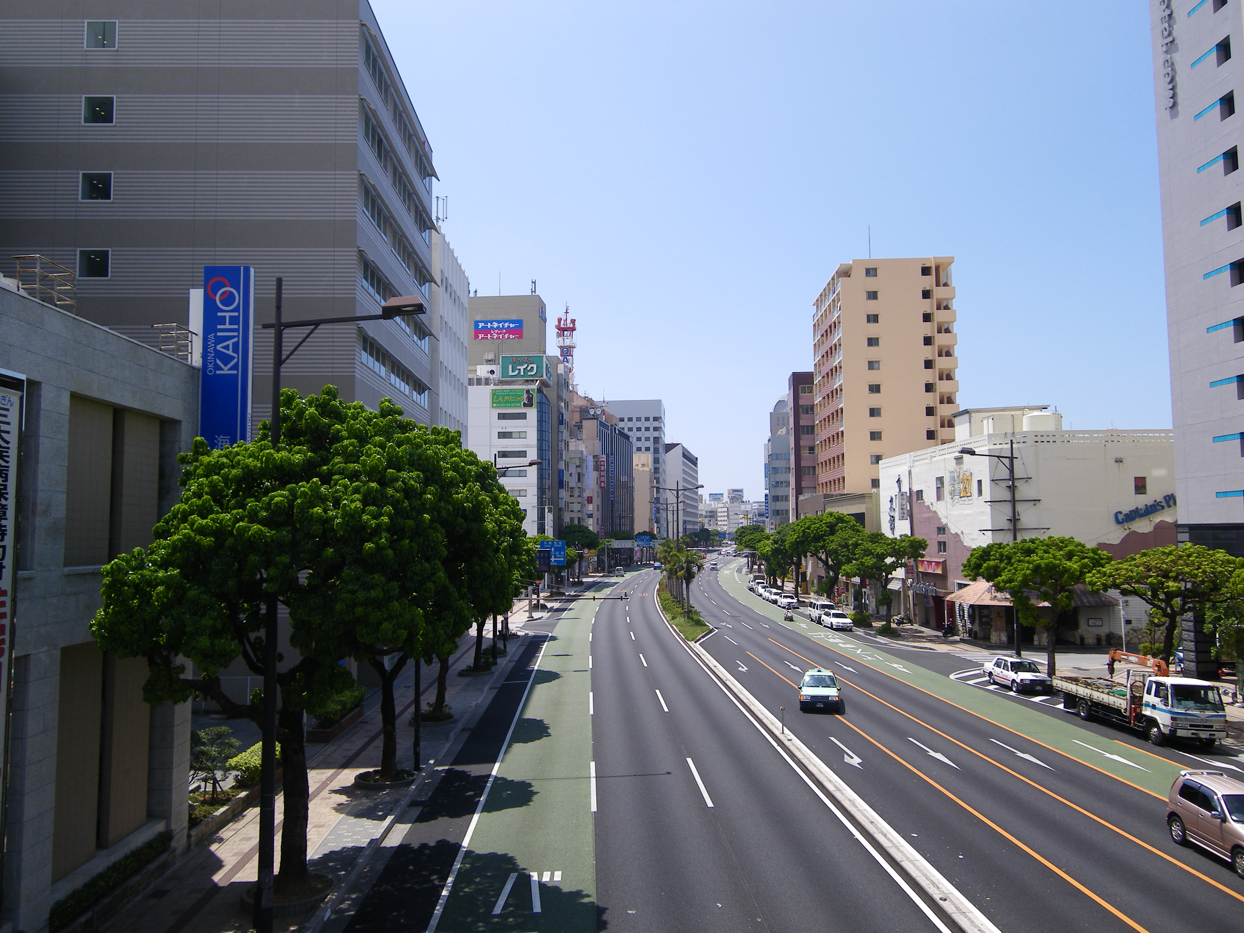 The center of Naha city taken photo from Matsuyama Intersection.